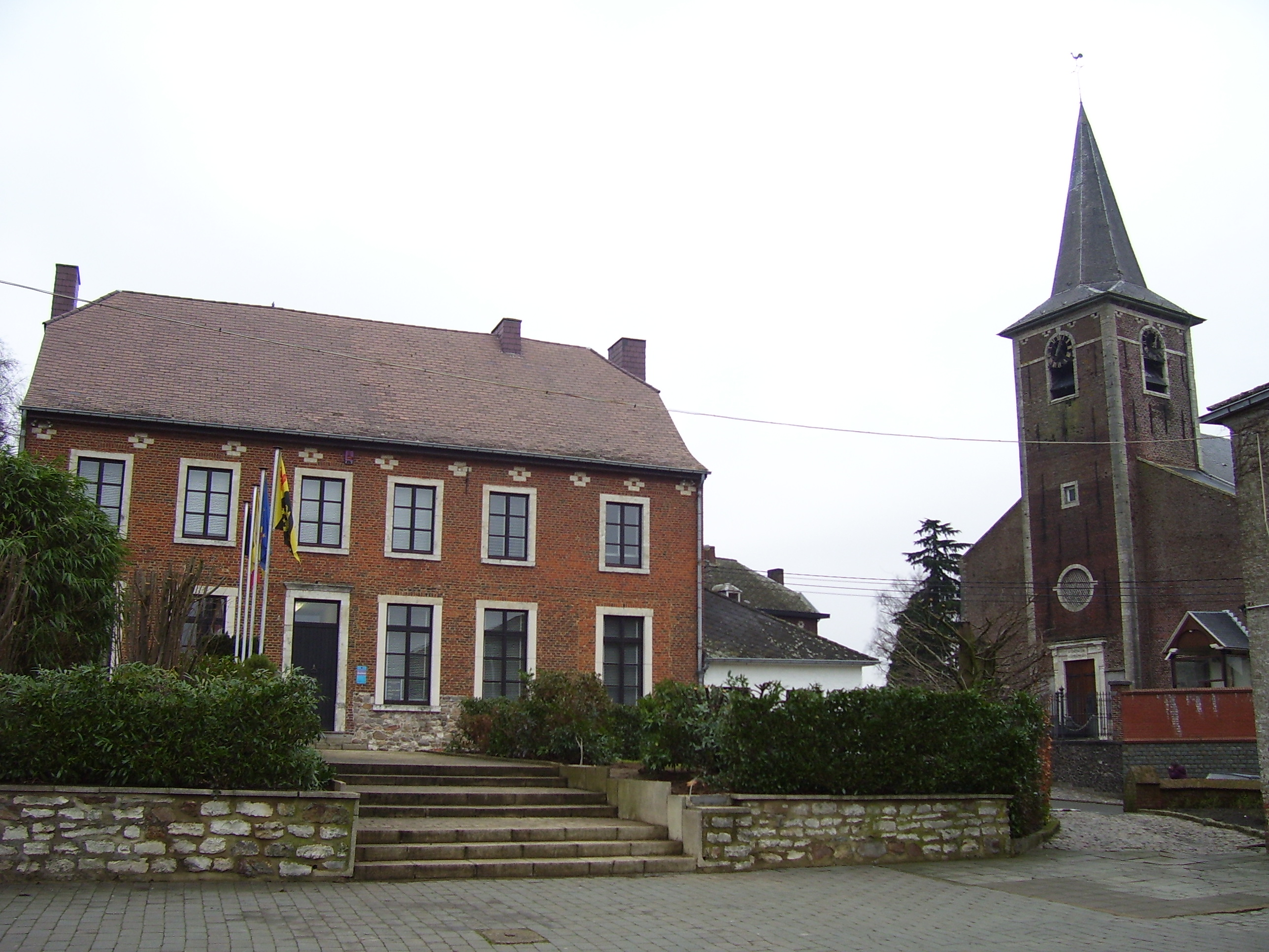 Maison Communale (municipality) and church of Incourt, Belgium